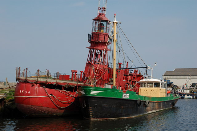 Arklow harbour. The fortunes of Arklow harbour have declined in recent years with the closure of the local fertiliser factory and the cessation of the export of wood chips. There is some business connected with an offshore windfarm and the harbour is used by fishing boats. Here the mussel dredger WD-190 Noordster is berthed outside the former lightship "Skua". SKUA The "Skua" was delivered to Irish Lights in 1960 Year of construction: 1960 Shipyard: Phillip & Son, Dartmouth, Devon, England Yard-No.: 1303 Length o.a.: ca. 41,80 m Length: ca. 35,50 m Beam: ca. 7,62 m Draught: ca. 4,57 m Authority: Commissioners of Irish Lights, Dublin Decommissioned in 2004. WD-190 Nordster Length: 36.76 m Beam: 6.42 m Draught: 1.35 m Homeport: Wexford Flag: Ireland